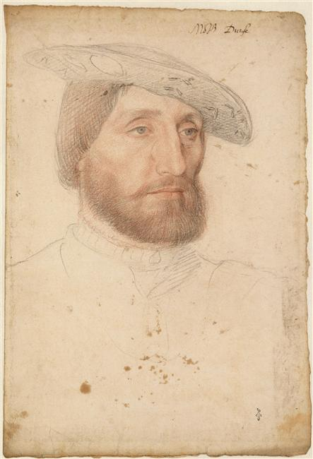 Sketch portrait of Claude d'Urfe by the school of Jean Clouet.(Google translator).